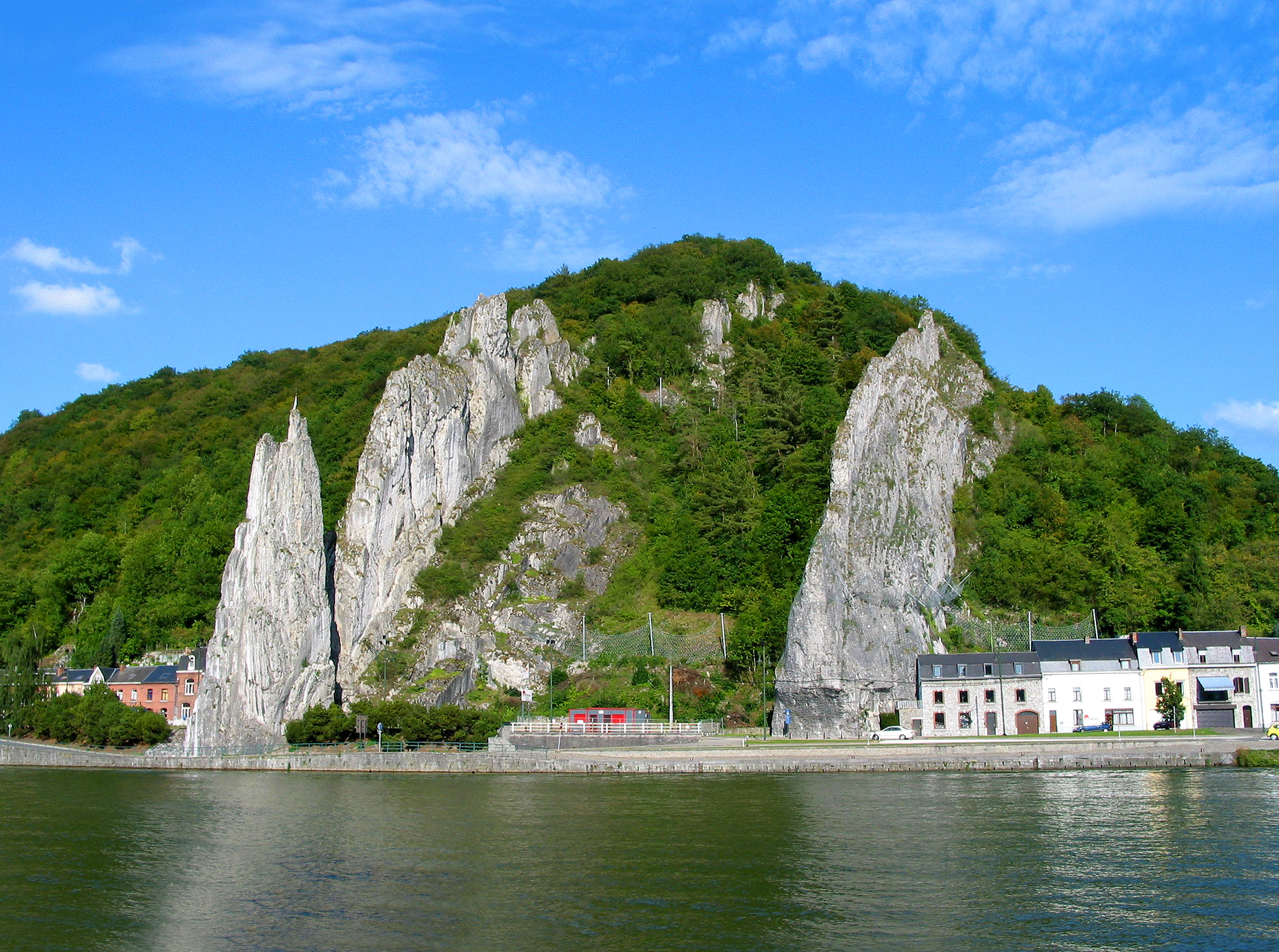 Dinant (Belgium), the Meuse and the « Rocher Bayard ».